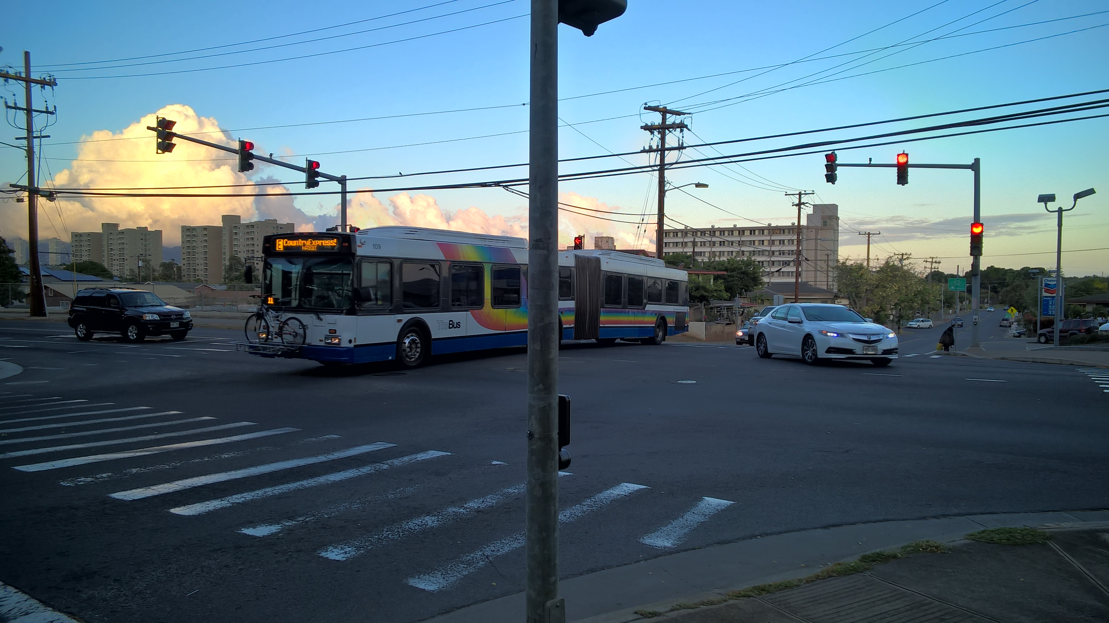 Honolulu TheBus 2002 New Flyer D60LF E CountryExpress! Waikiki